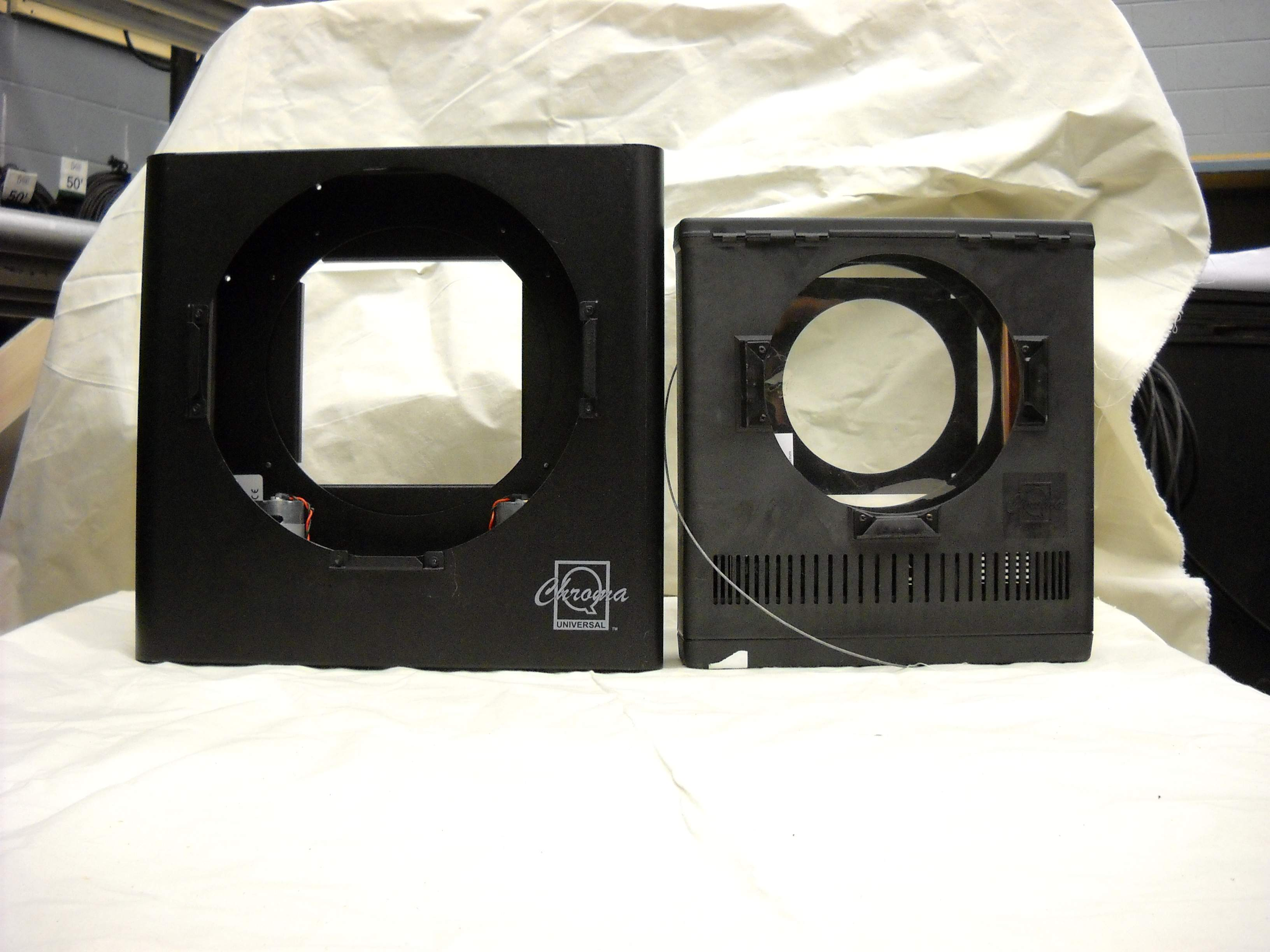 6" and 8" Chroma Q Scrollers